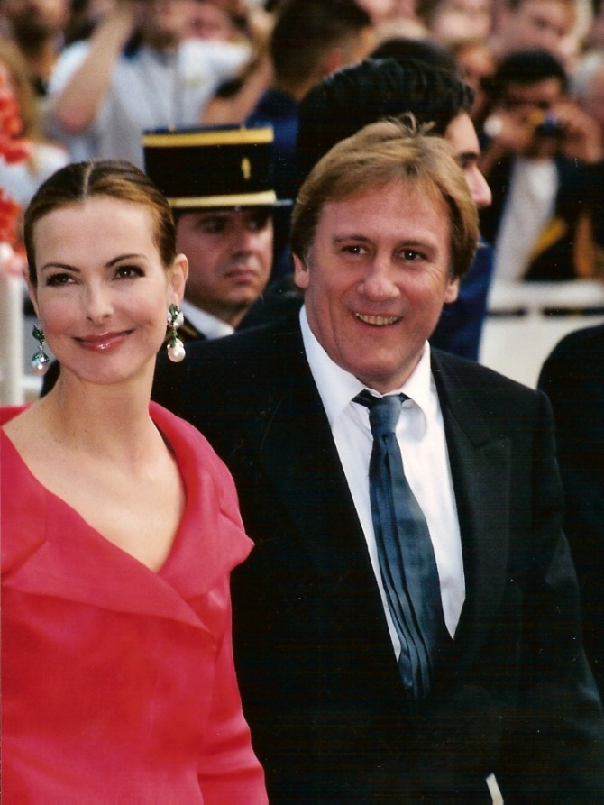 Carole Bouquet and Gérard Depardieu